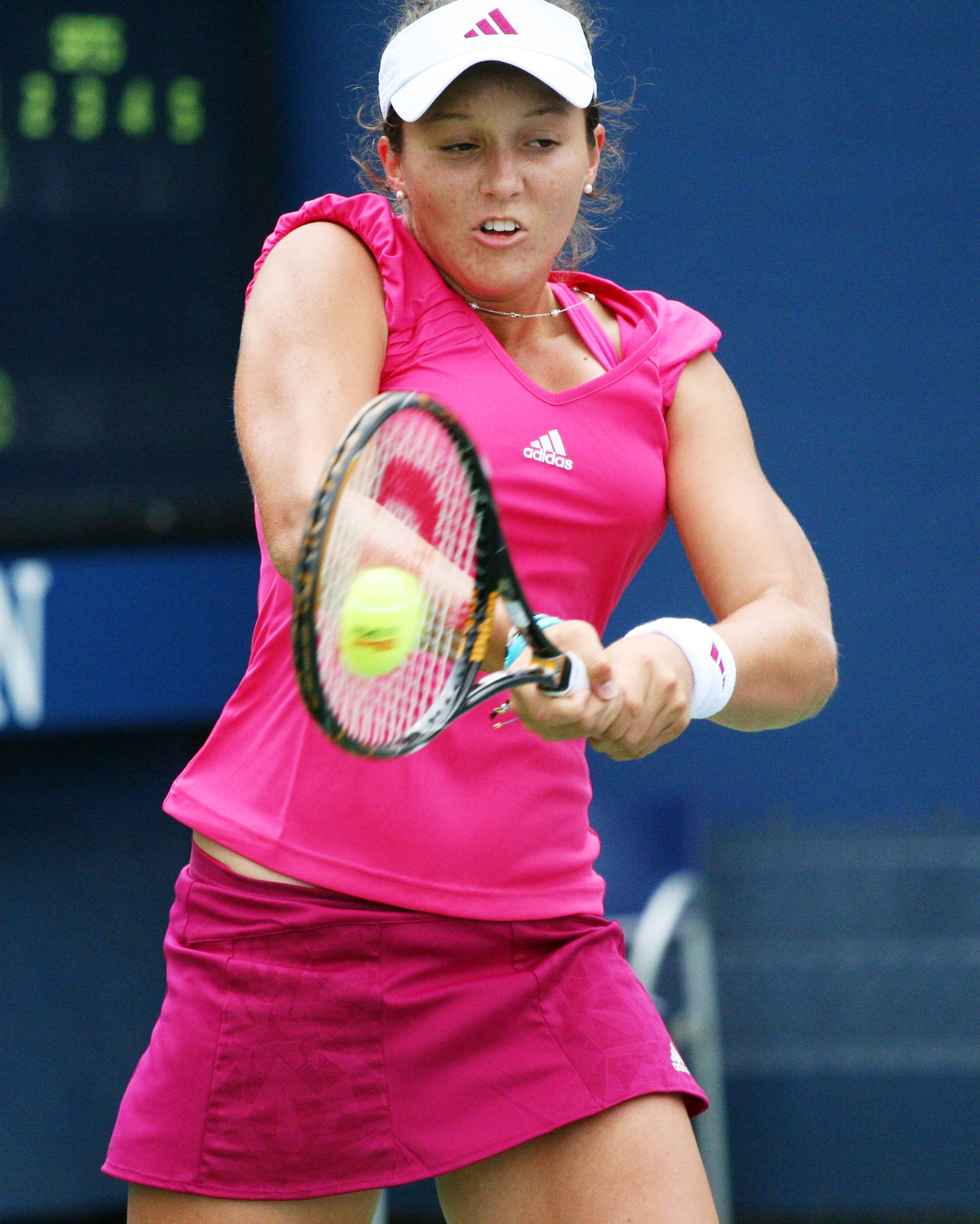 Laura Robson at the 2010 US Open